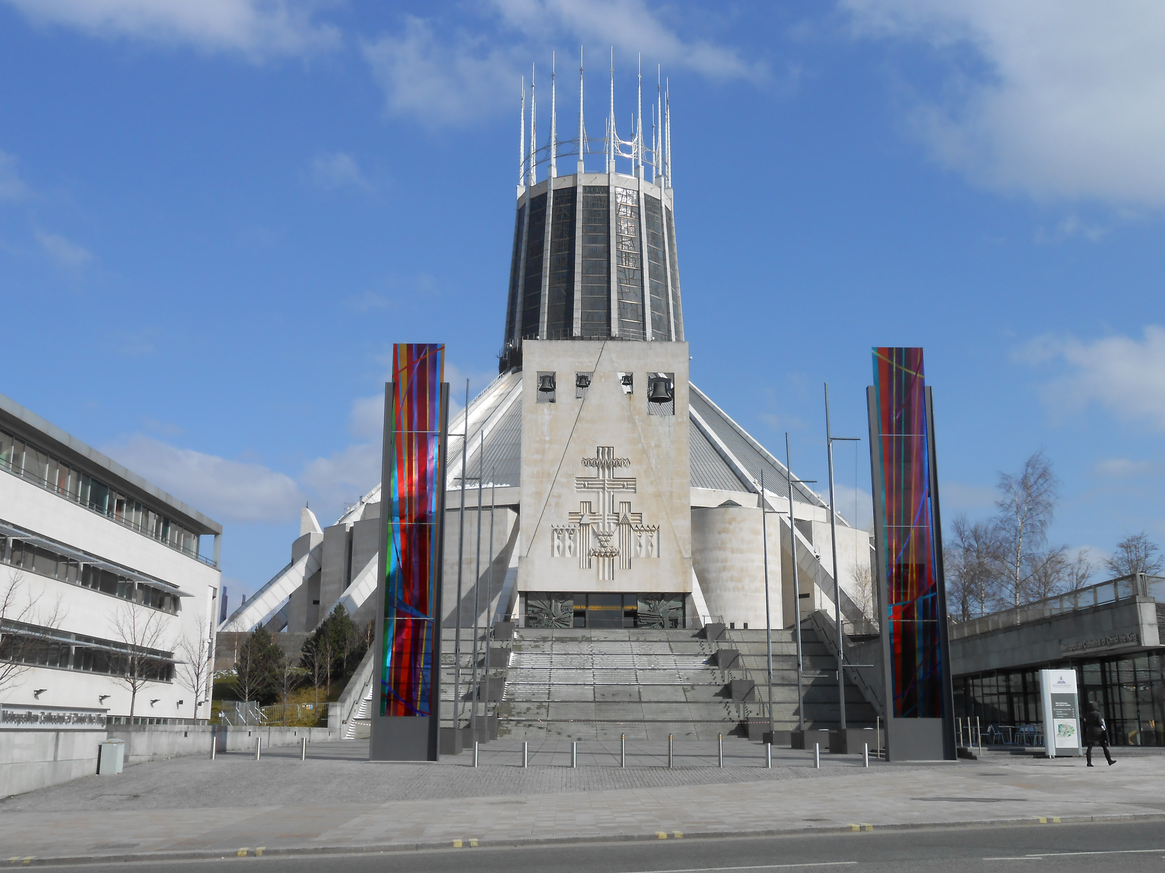 Liverpool Metropolitan Cathedral, England.